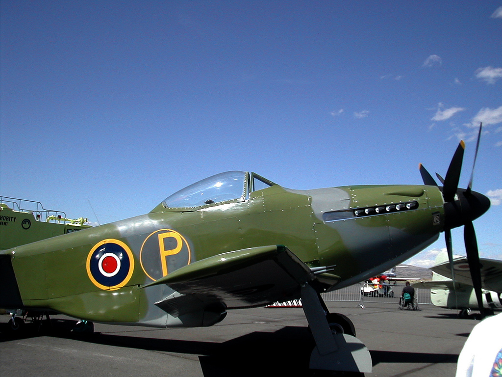 Martin-Baker M.B.5 replica, undergoing construction at Reno Stead Airport. Photo by , taken at the 2005 Reno Air Races.